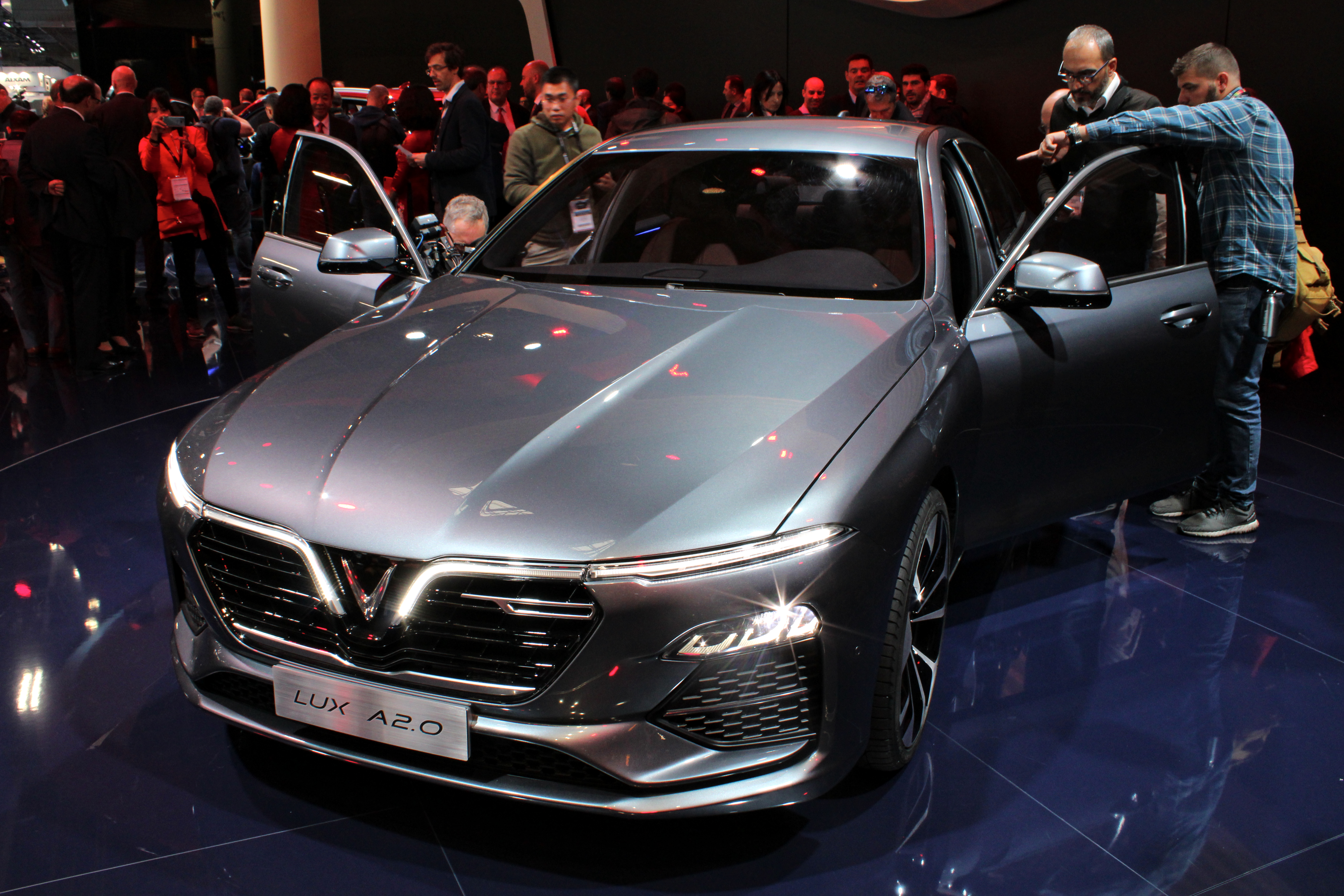 Vinfast Lux A 2.0 at Paris Motor Show 2018